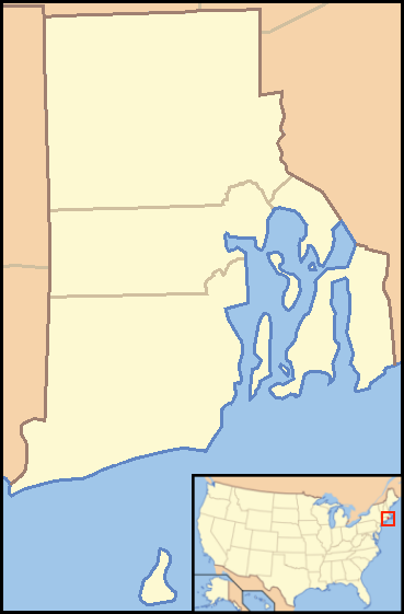 Locator Map of Rhode Island, United States